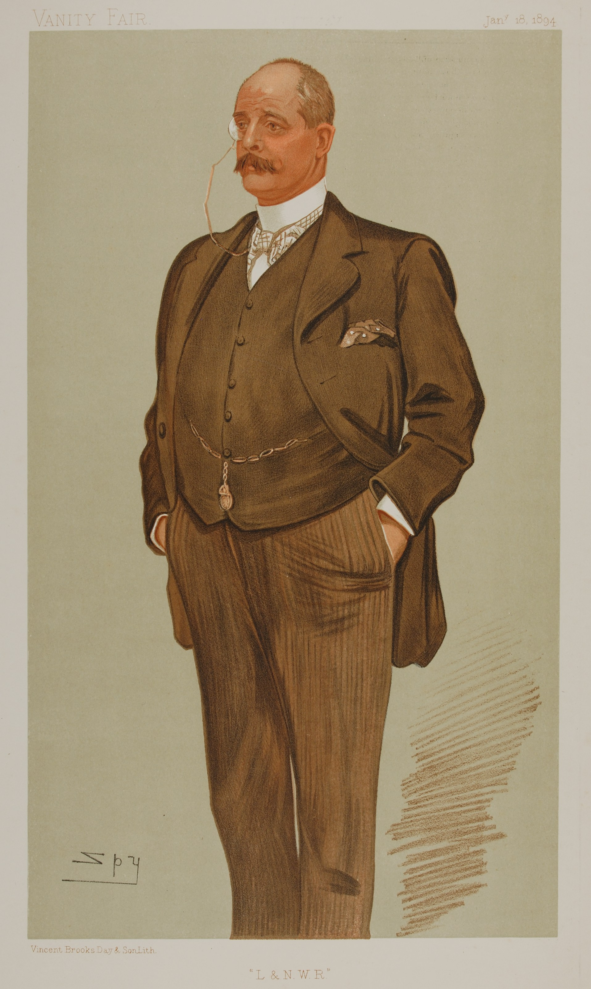 Men of the Day No. 577: Caricature of Frederick Harrison, general manager of the London and North Western Railway 1893–1908. Caption read "L & NWR".